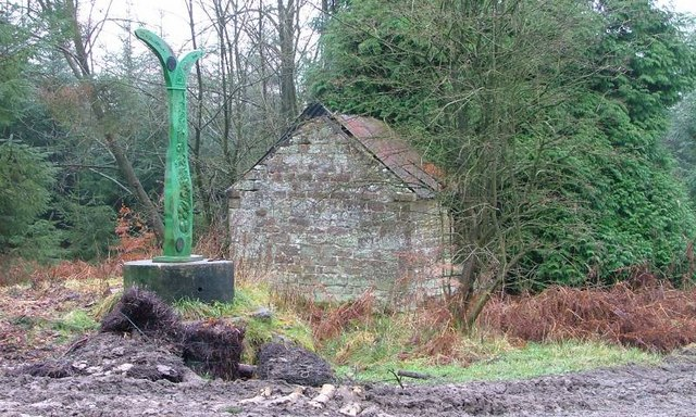 Signpost, National Cycleway 65